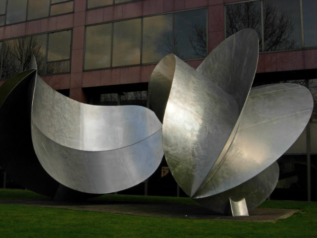 South of the River